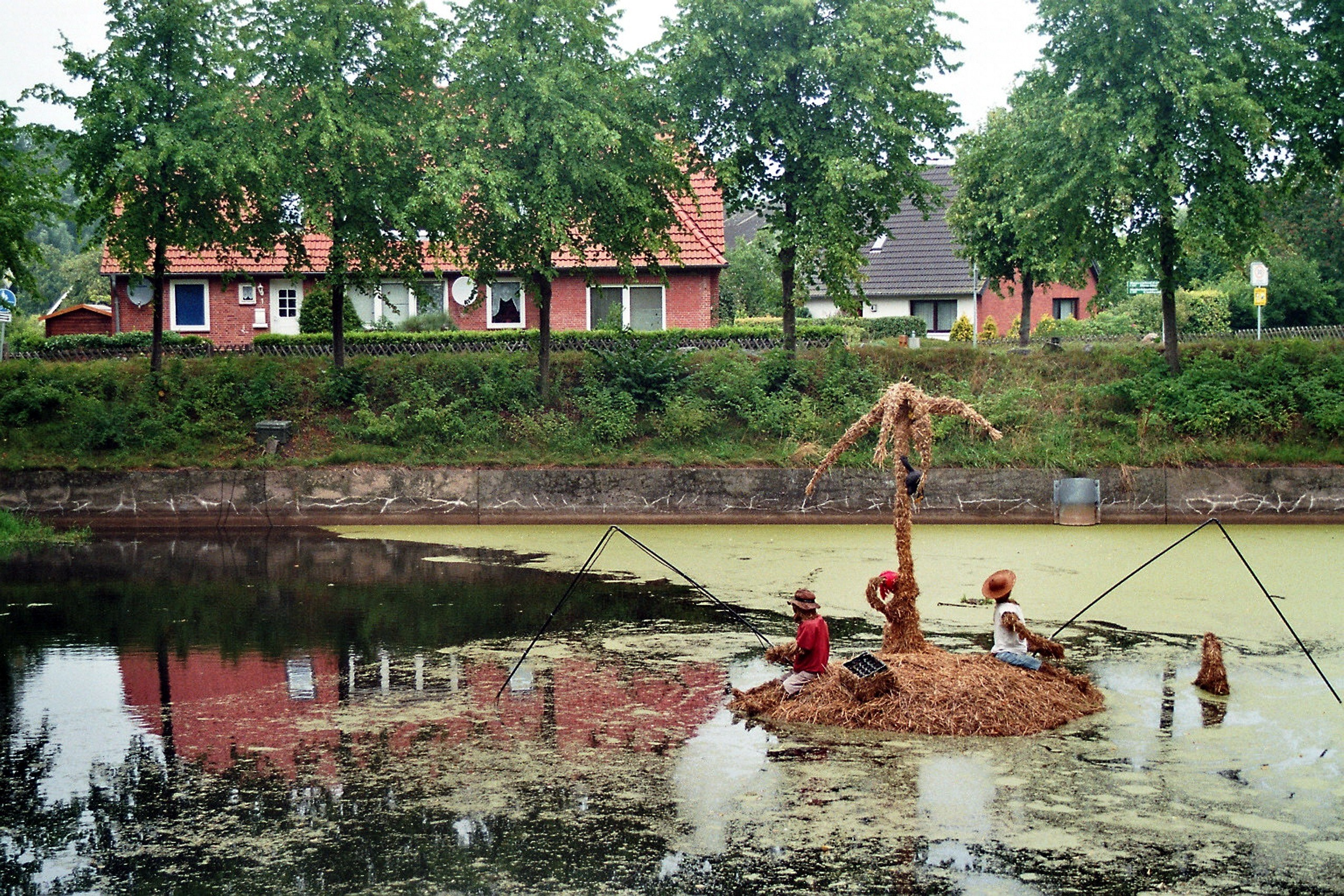 Barsbek, the village pond